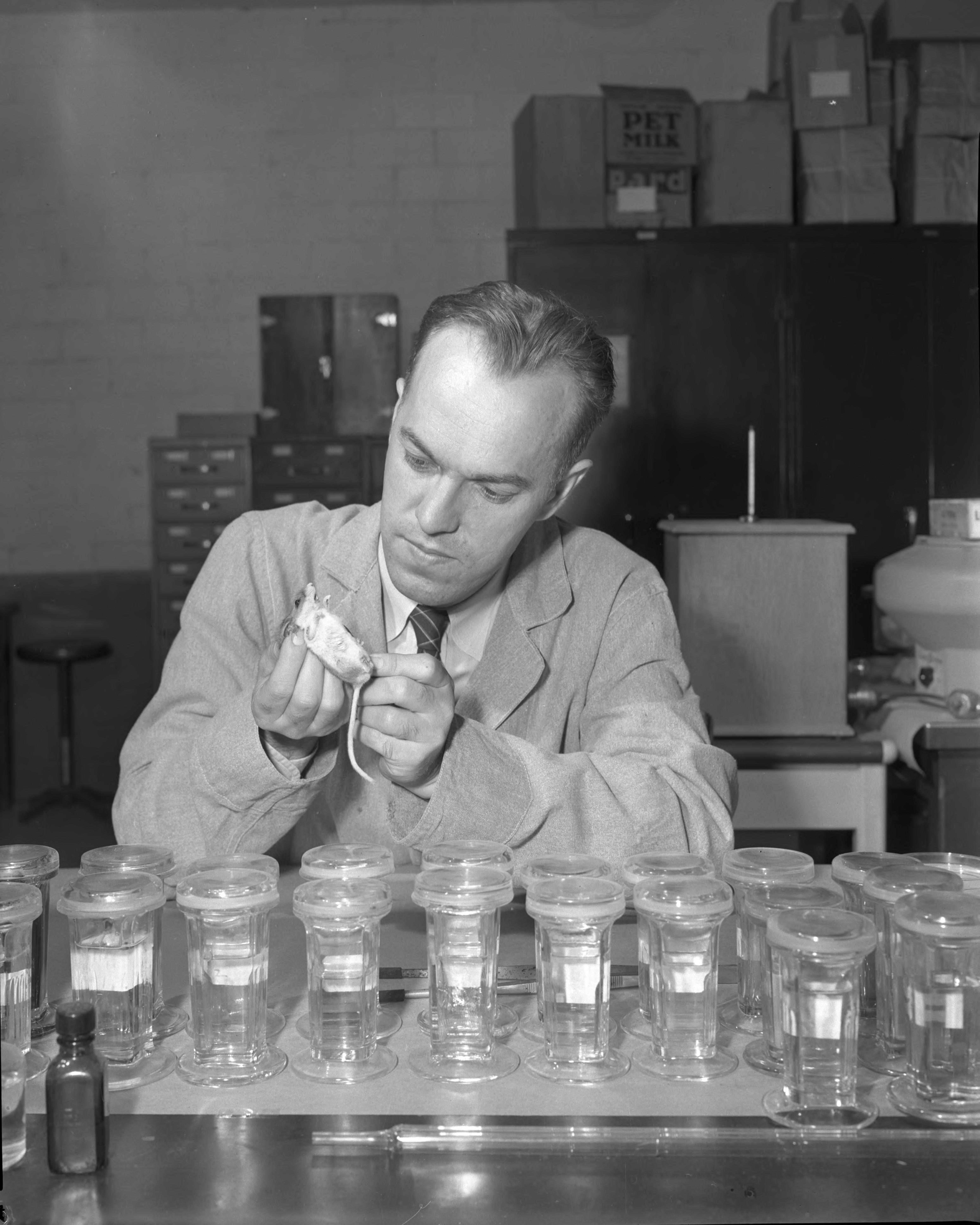 Clement Markert, Professor of Zoology, University of Michigan. 1951. The photograph was accompanied by a note: "Prof Clement Markert, Zoology Dept., who is studying with isotopes how genes affect the pigment-producing system which decides hair color of the mouse."